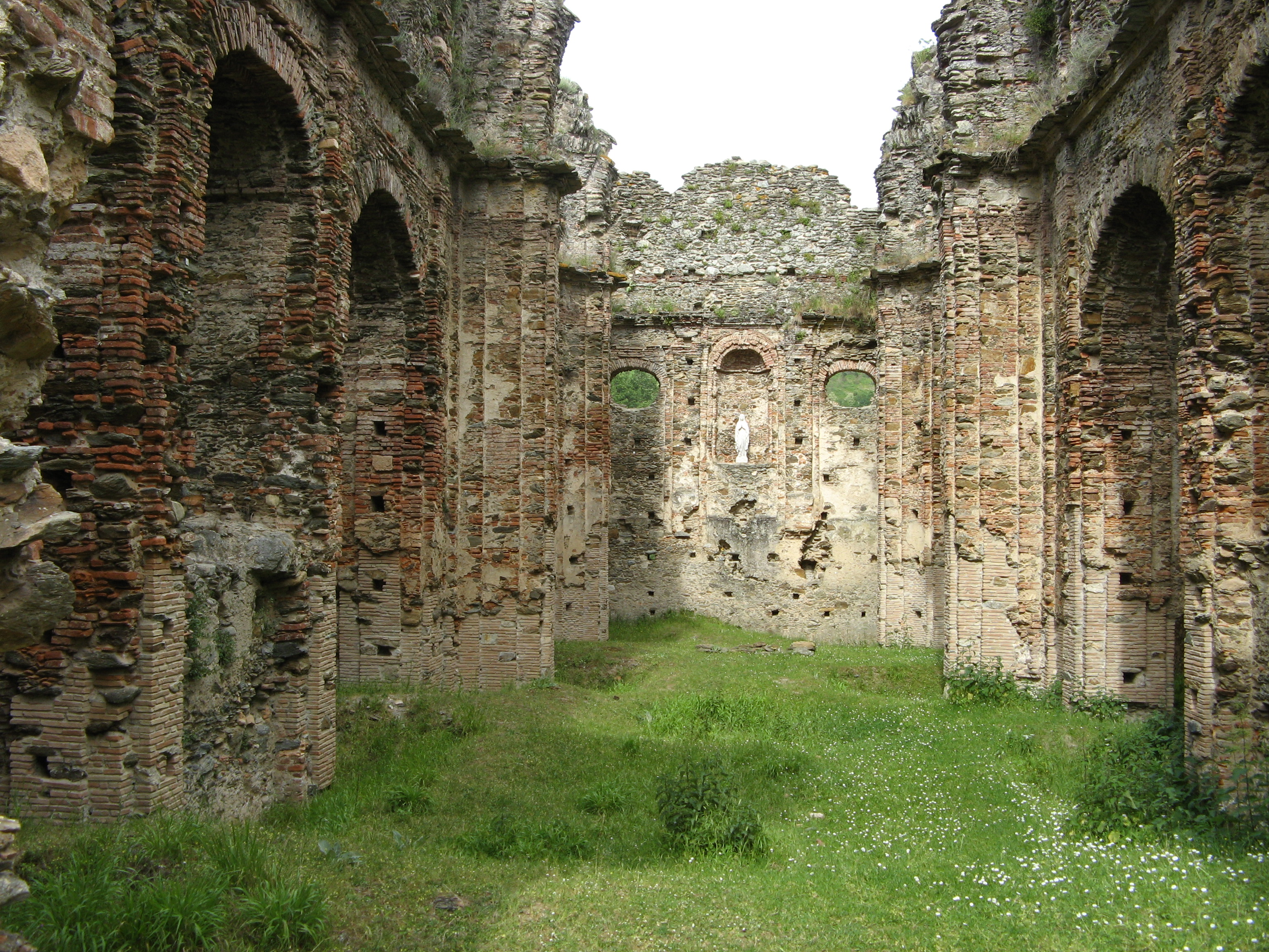 Castagna (Italy), Santa Maria di Corazzo Cistercian Abbey, Central nave